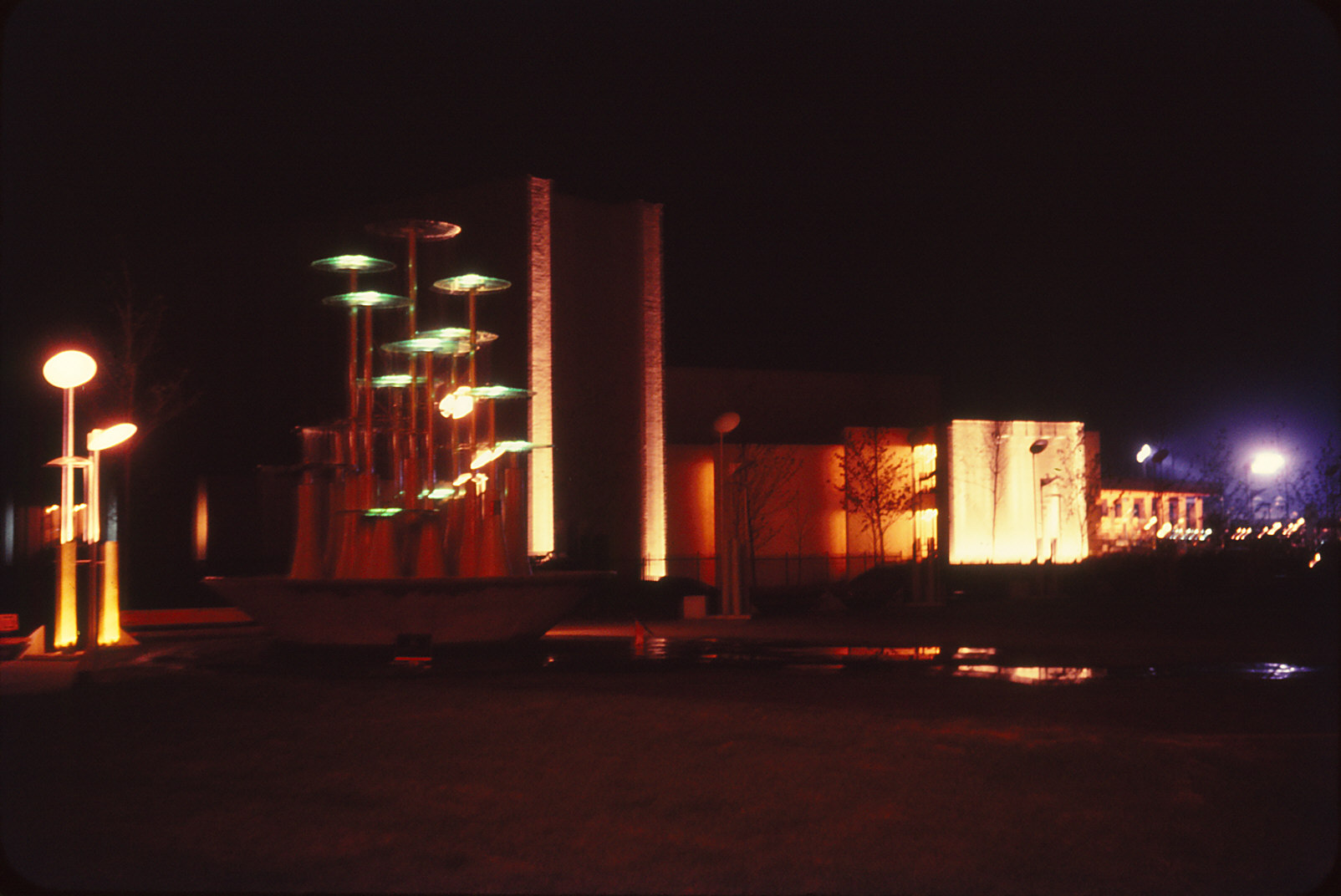 Cité du Havre, the Expo-Théâtre. The fountain La Giboulée in foreground. Expo 67, Montreal, Quebec, Canada, may 1967.